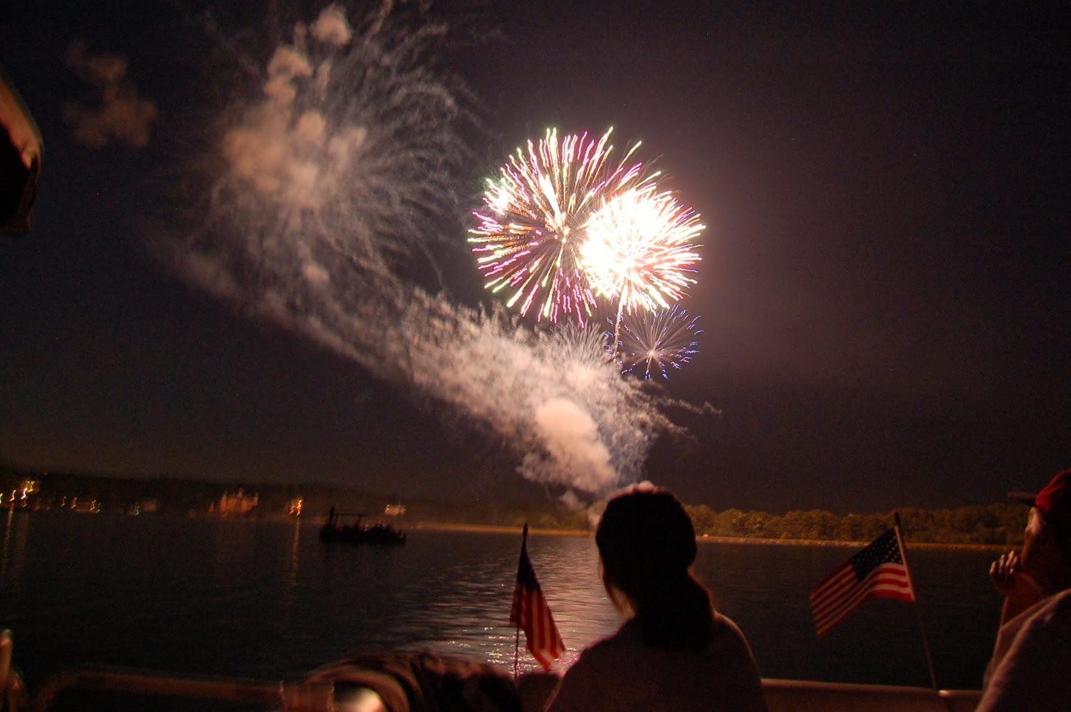 The 4th of July fireworks show on Lake Spivey in Georgia in 2010.